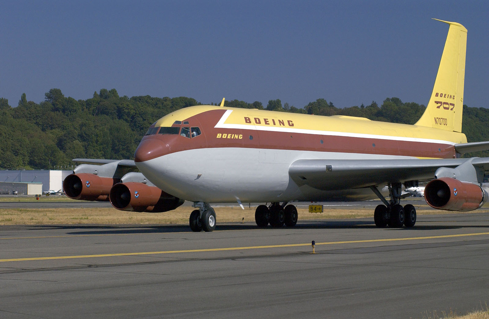 Dash 80 taxiing photo by Jim Coley